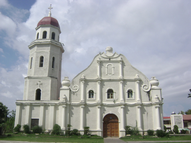 The Santa Catalina de Alejandria Church was declared as a National Cultural Treasure by the National Museum of the Philippines.